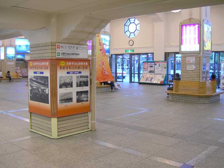 Ujiyamada station at Ise city, Mie prefcture, Japan.